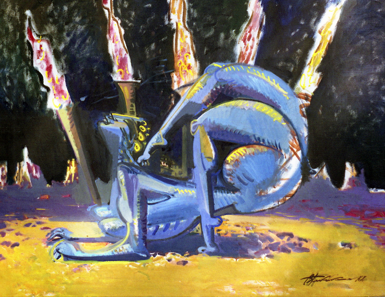 Vasiliy Ryabchenko. "Snake woman", 140 х 160 cm, oil on canvas, 1988